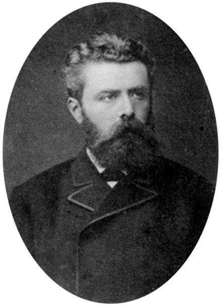 Prof dr. G. J. Legebeke (1847-1893)